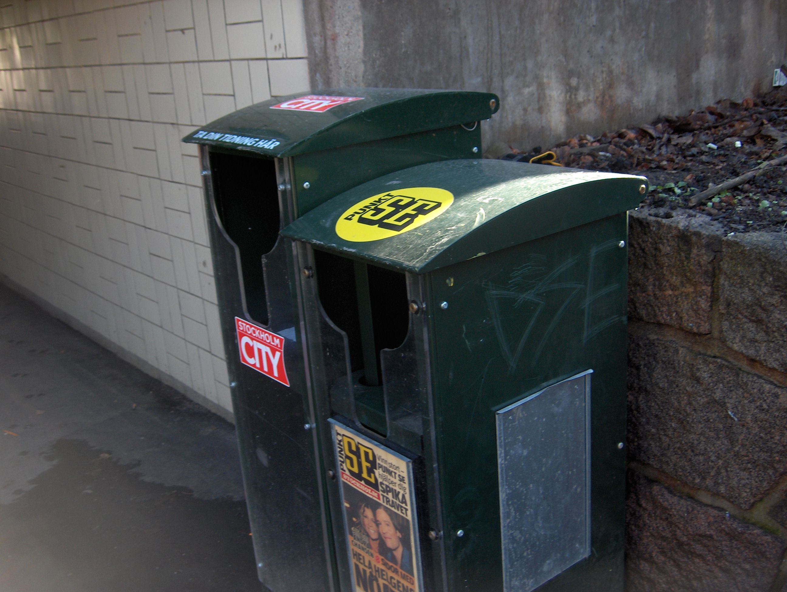 News-stand outside the Stockholm Metro station in Enskede gård, photographed by me.